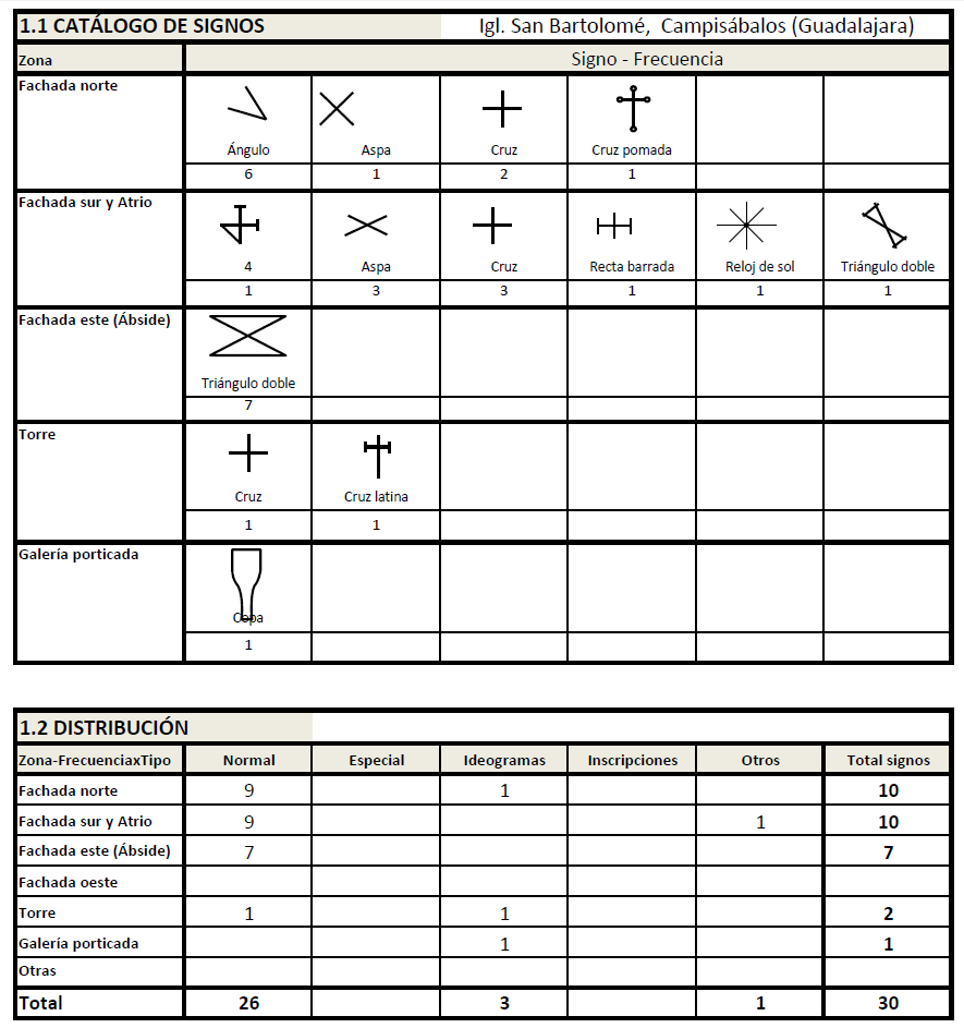 San Bartolomé Church, CAMPISÁBALOS (Guadalajara) Spain. Romanesque s XII. Stonecutter marks catalog.